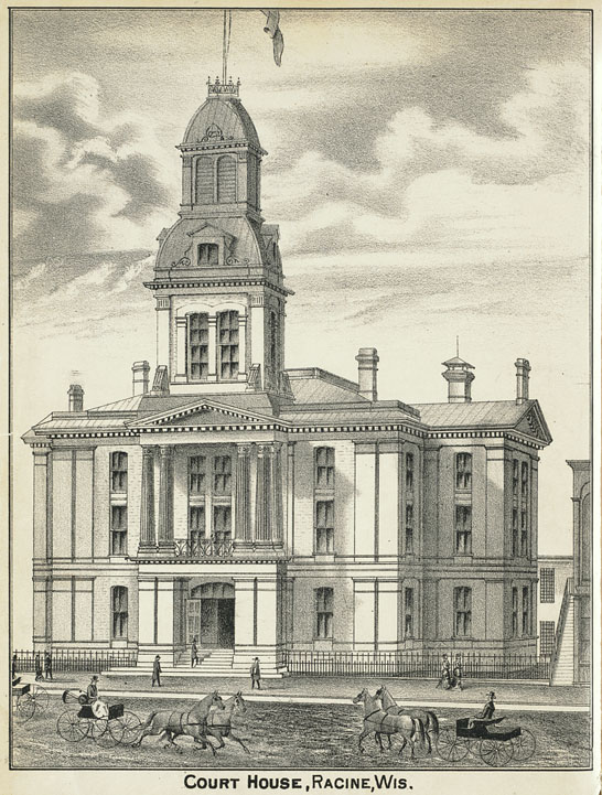 1879 engraving of the Racine County, Wisconsin courthouse building